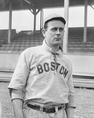 Half-length portrait of Wiley Piatt, pitcher for the Boston Beaneaters, National League baseball team, standing near the grandstand at West Side Grounds, which was located in Chicago, Illinois.